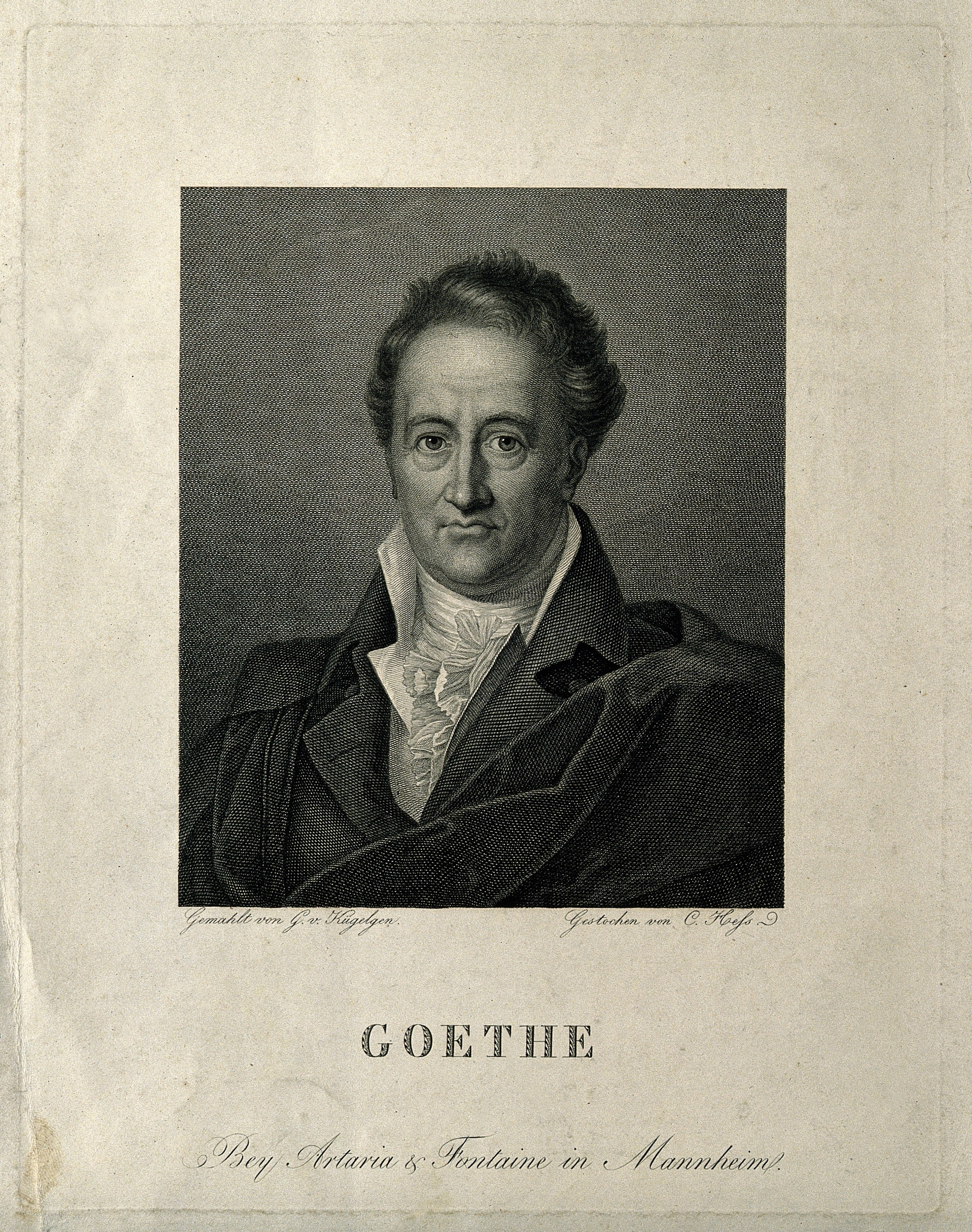 Johann Wolfgang von Goethe. Line engraving by C. Hess after F. G. von Kügelgen, 1810. Iconographic Collections Keywords: portrait prints; engravings; Carl Ernst Christoph Hess; F. G. von Kugelgen; Johann Wolfgang von Goethe